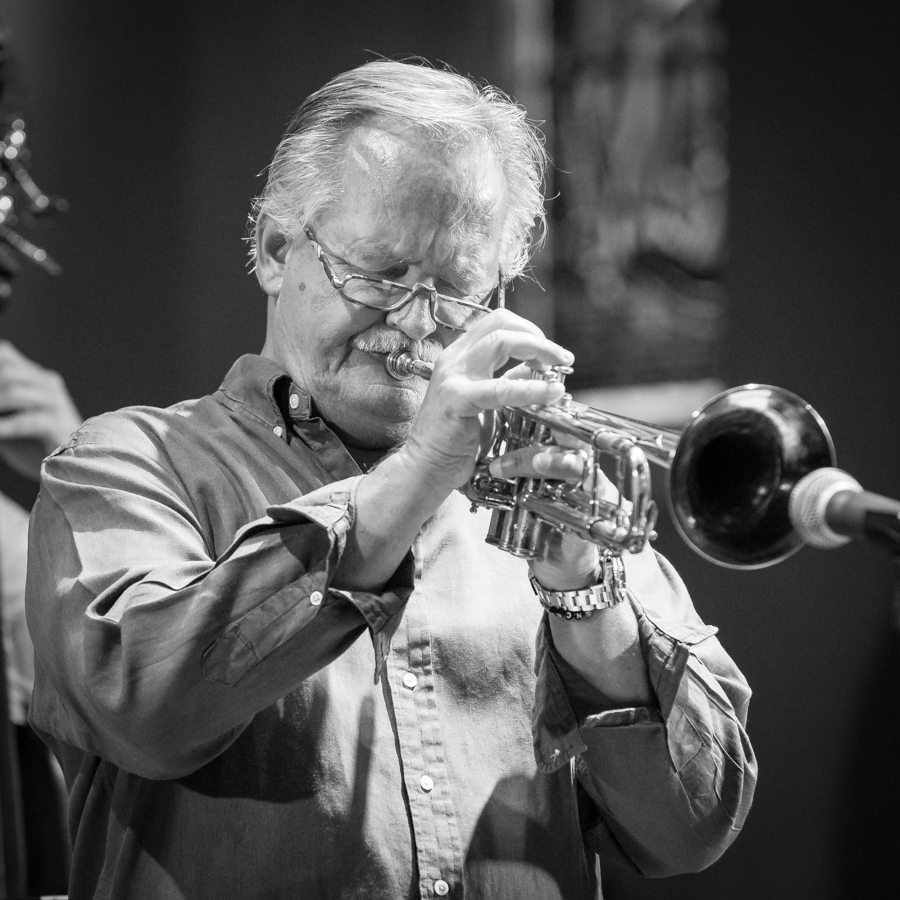 Anders Bjørnstad with Magnolia Jazzband and Topsy Chapman at the stage in Oslo Cathedral. The concert was part of Oslo Jazzfestival and took place on 17. August 2017. Lineup: Topsy Chapman (vocal), Anders Bjørnstad (trumpet), Georg Michael Reiss (clarinet), Gunnar Gotaas (trombone), Håkon Gjesvik (piano), Børre Frydenlund (banjo), Sebastian Haugen-Markussen (double bass) and Torstein Ellingsen (drums).